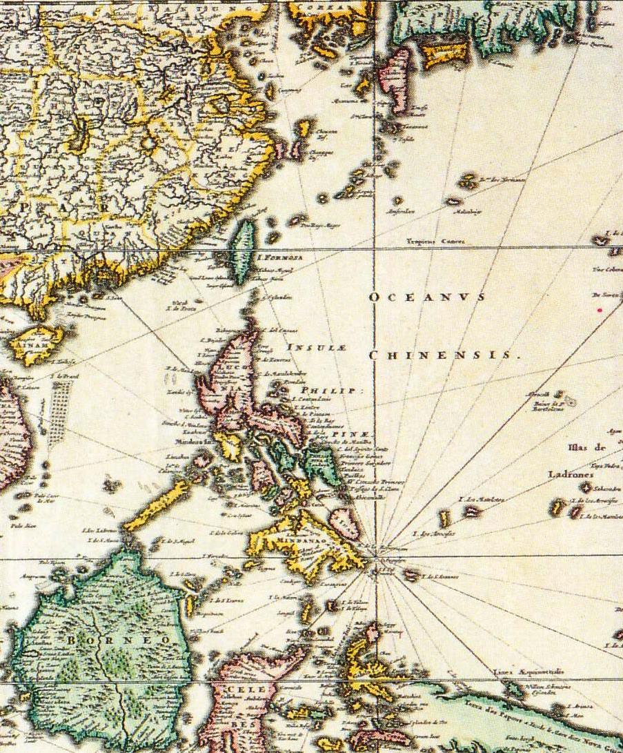 1680 Map of Formosa (Taiwan), Philippines, and other South East Asia Countries. By Nicolas Visscher (1618 - 1679). 56 western maps confirm Vietnamese sovereignty over Paracel and Spratly islands for 5 centuries [1] Nicolas Visscher (1618 - 1679)